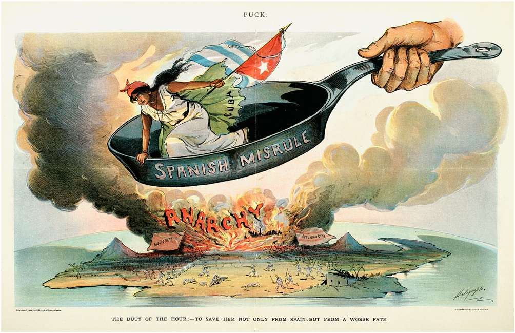 A cartoon by Louis Dalrymple (1866-1905), from the American humourous magazine Puck, 1898, urging war with Spain over Cuba